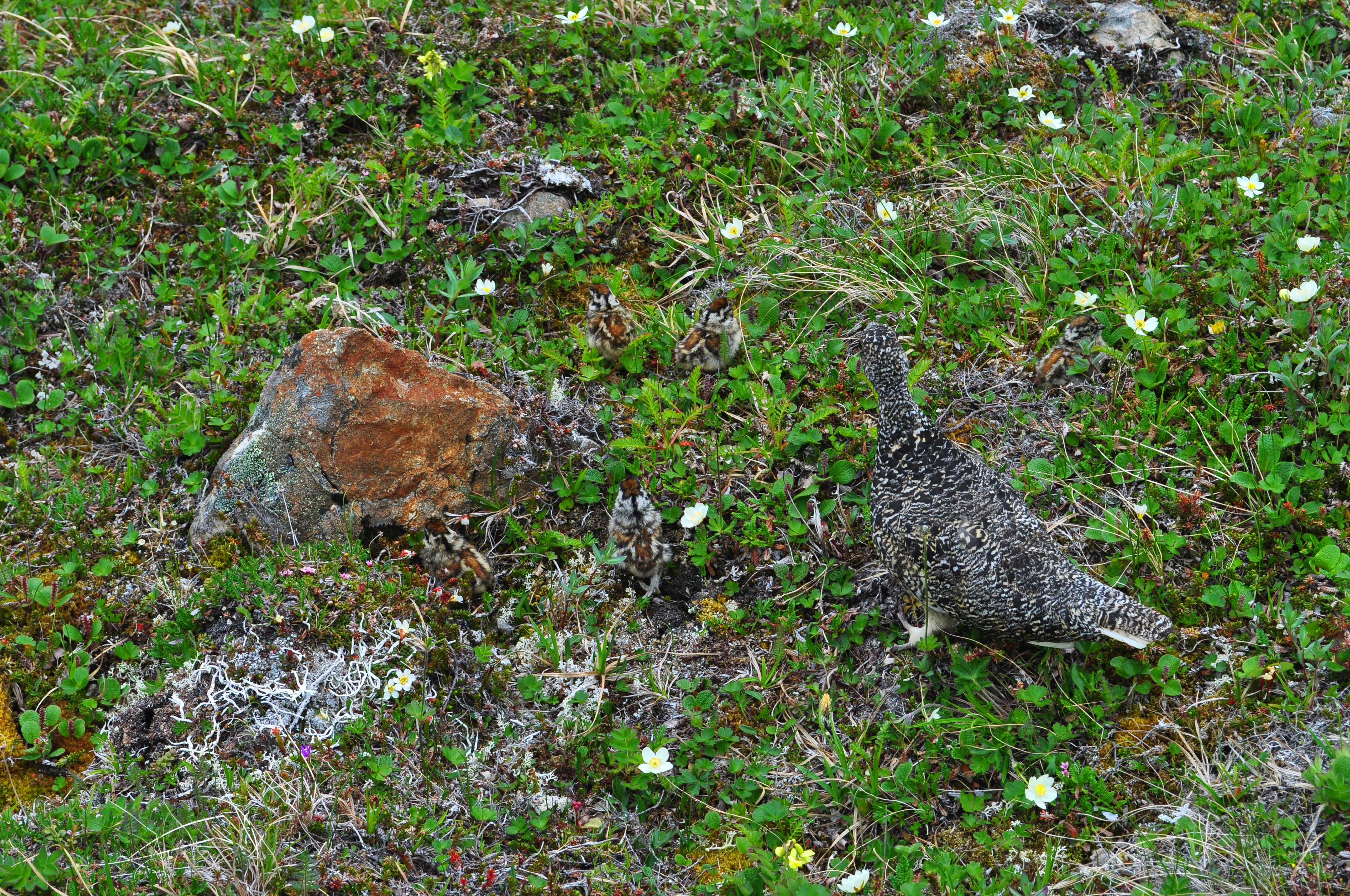 A White-tailed Ptarmigan Lagopus leucura with five chicks in the Chugach Mountains of Alaska, exhibiting exceptionally effective summer camouflage